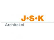 JSK Architekci logo